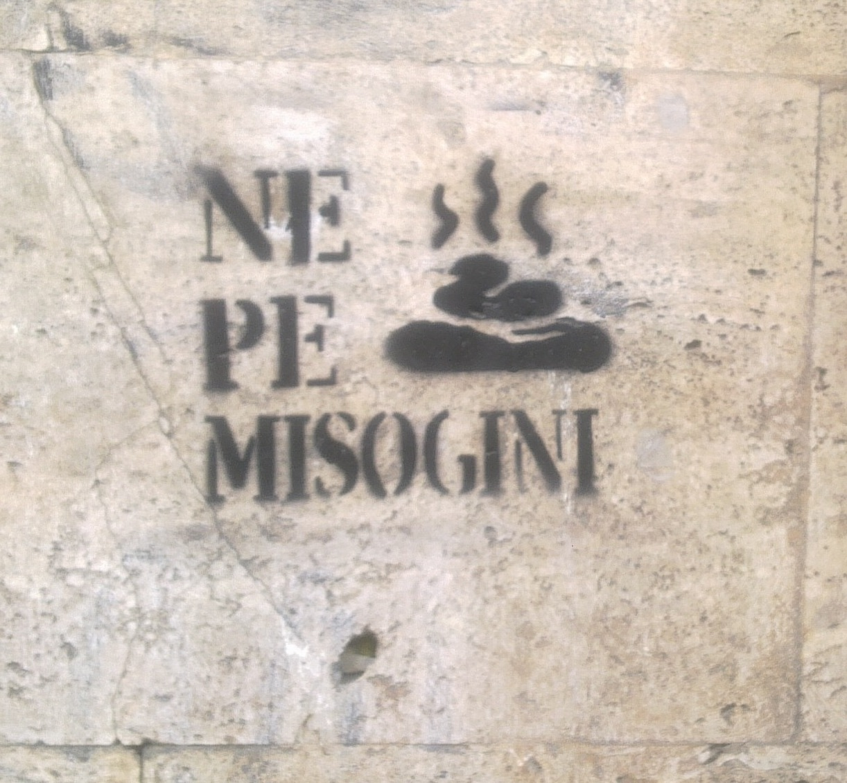 Anonymous tag "We shit the misogyns" in Romanian, Bucharest 2013